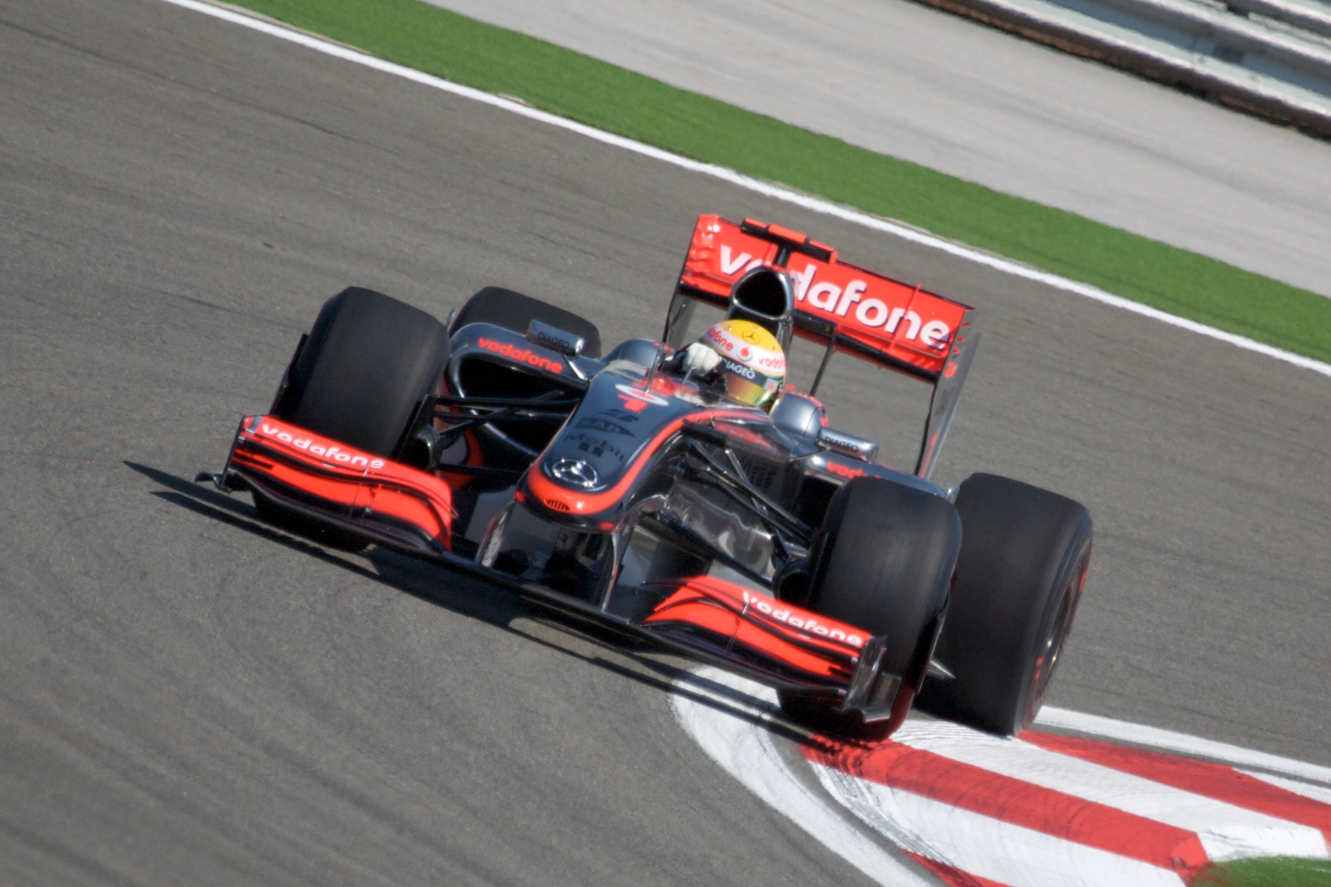 Lewis Hamilton driving for McLaren at the 2009 Turkish Grand Prix.